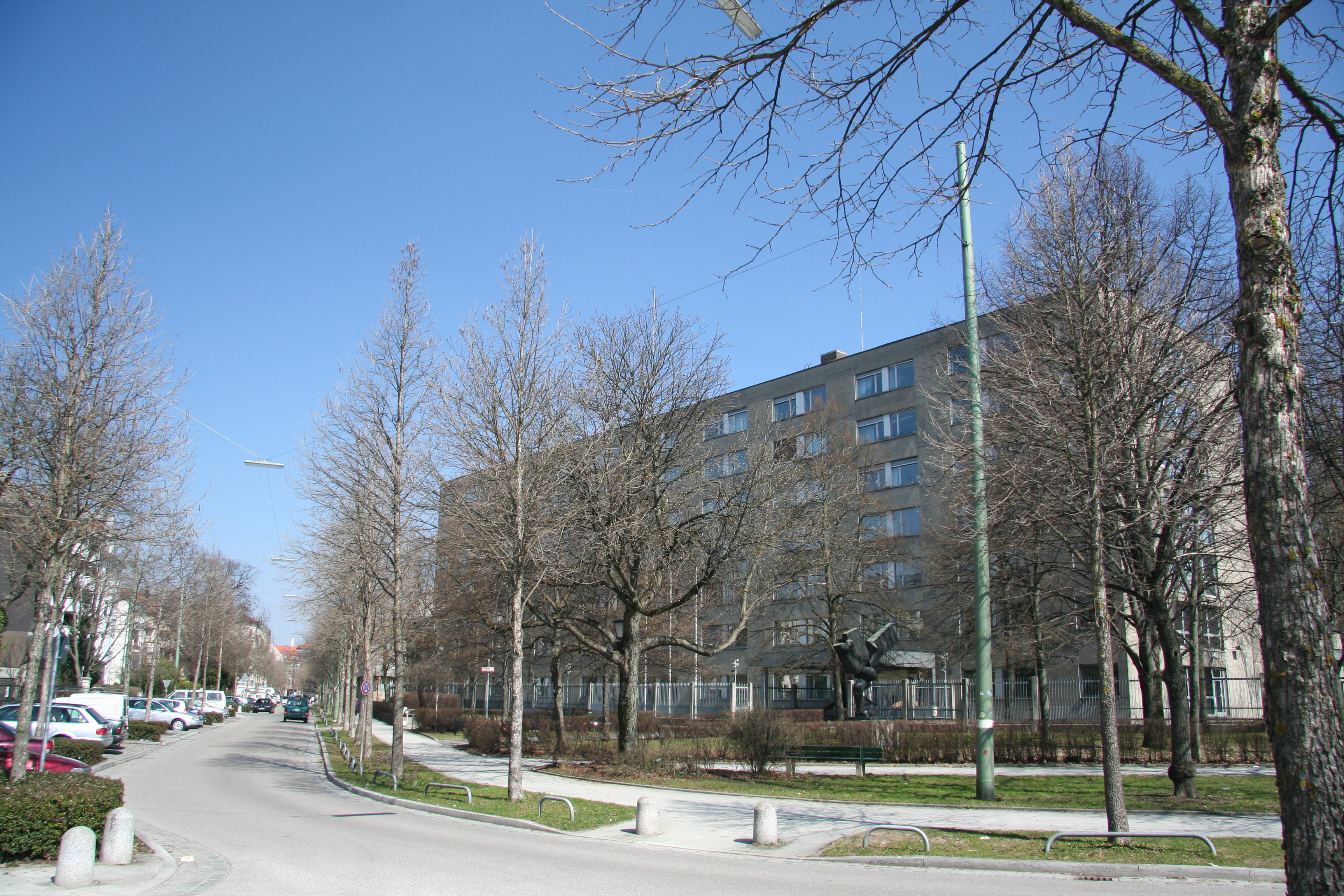 Maillingerstraße in Munich/Bavaria, the building on the right is the Bavarian CID (criminal investigation department).